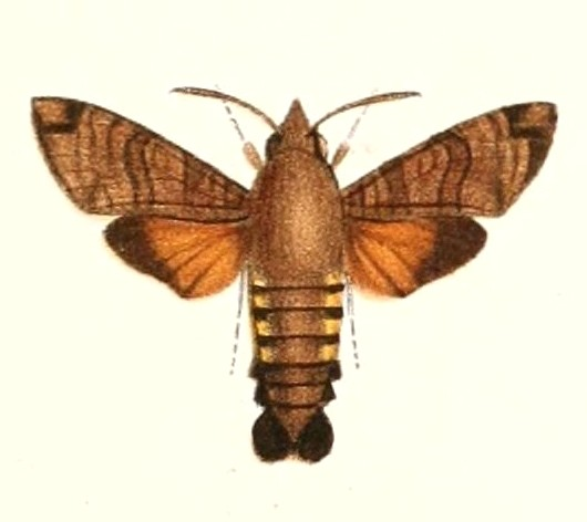 « Macroglossa pseudogyrans » = Macroglossum vacillans